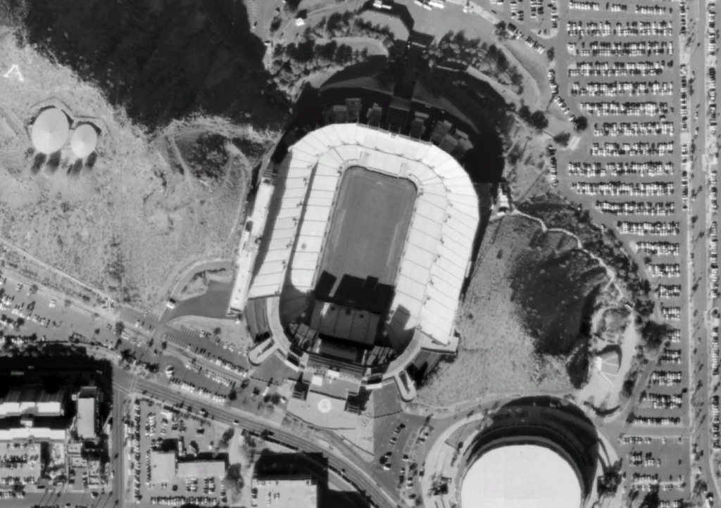 Sun Devil Stadium satellite view, nasa world wind 1.3.5